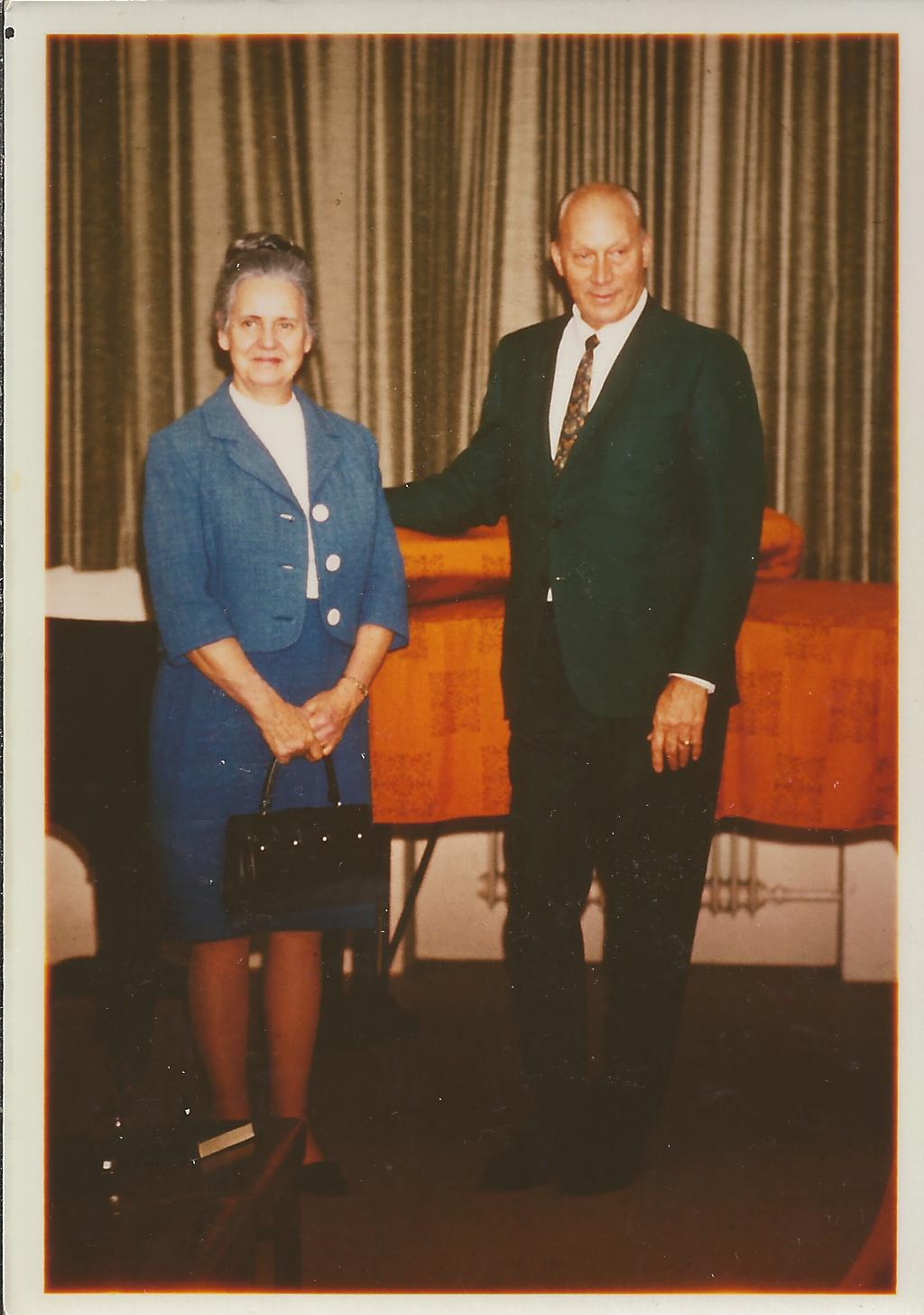 Picture taken in 1971 in Nuremburg, Germany, while M. Blaine Peterson was serving as a Mission President for the Church of Jesus Christ of Latter-day Saints. With his wife Elaine